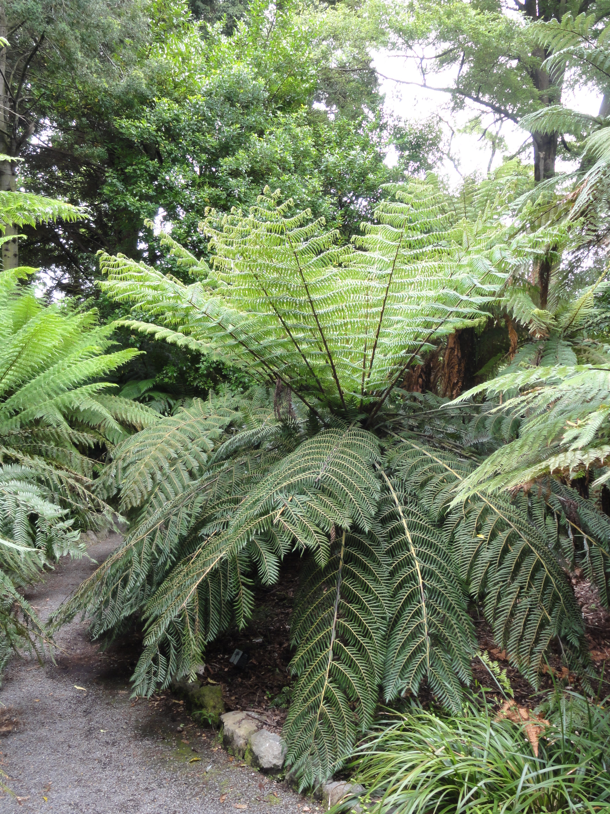 Cyathea dealbata, Christchurch Botanic Gardens